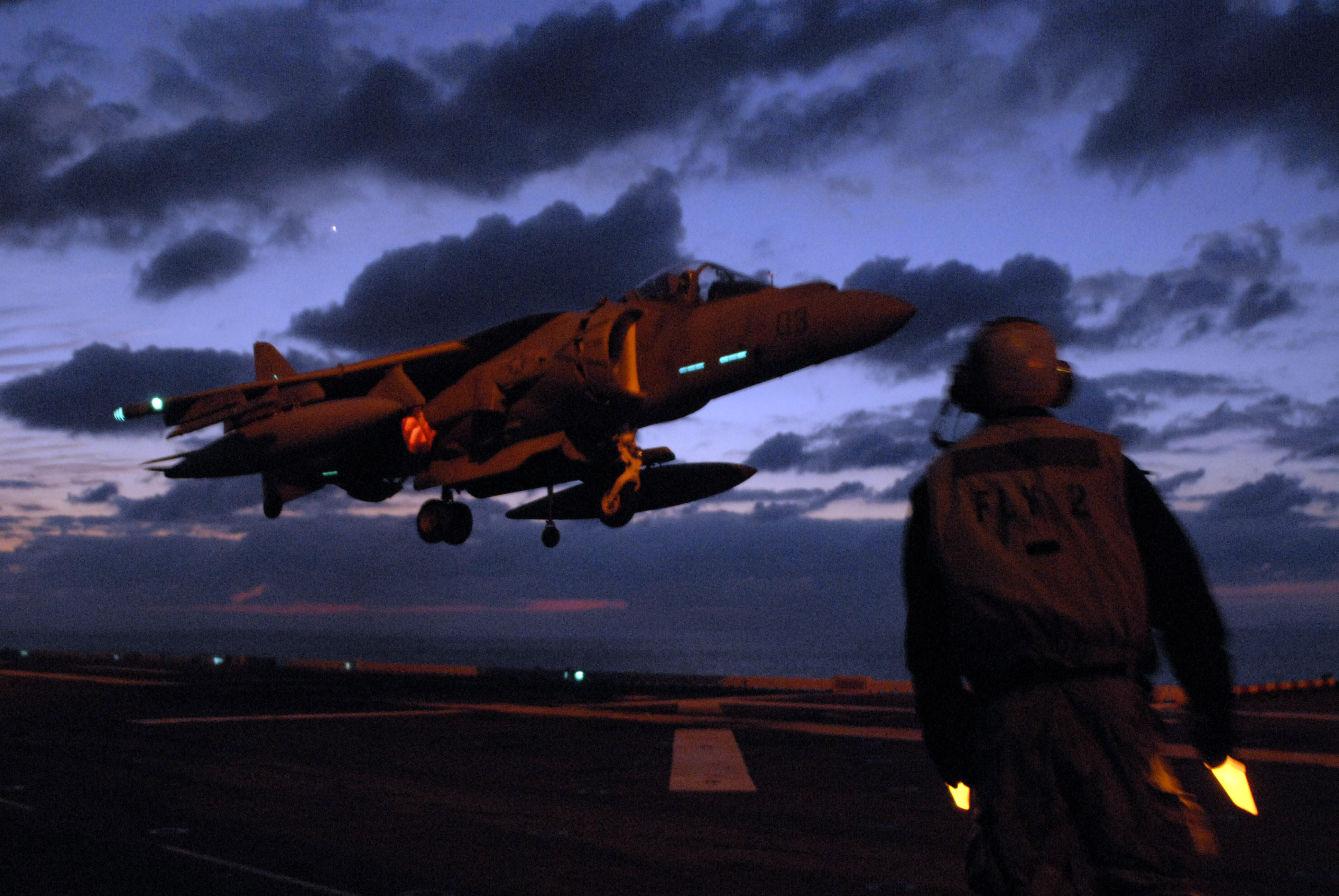 Pacific Ocean (Feb. 4, 2007) - An AV-8B Night Attack Harrier II, assigned to the “Blacksheep” of Marine Attack Squadron Two One Four (VMA-214), prepares to land on the flight deck of amphibious assault ship USS Essex (LHD 2) during night flight operations off the coast of Okinawa, Japan. U.S. Navy photo by Chief Mass Communication Specialist Ty Swartz (RELEASED)